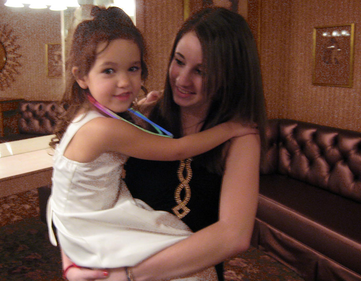 child with babysitter